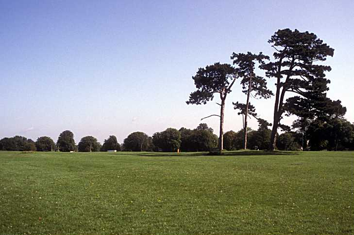 Durdham Down in Bristol showing the group of trees known as the "Seven Sisters" (only three remain).